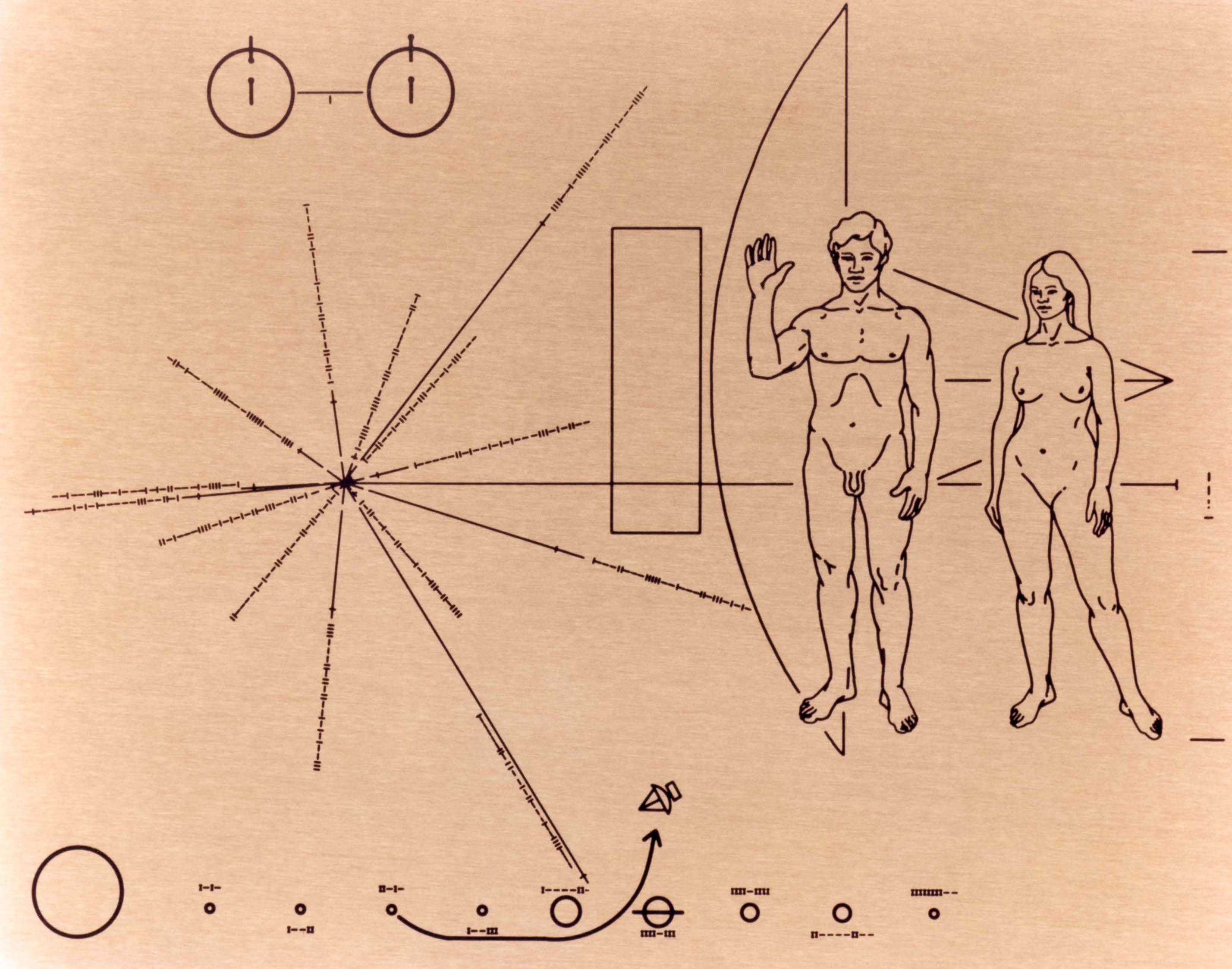 NASA image of Pioneer 10's famed Pioneer plaque features a design engraved into a gold-anodized aluminum plate, 152 by 229 millimeters (6 by 9 inches), attached to the spacecraft's antenna support struts to help shield it from erosion by interstellar dust. This version has had the tilt of the photograph fixed and the scan was cleaned.